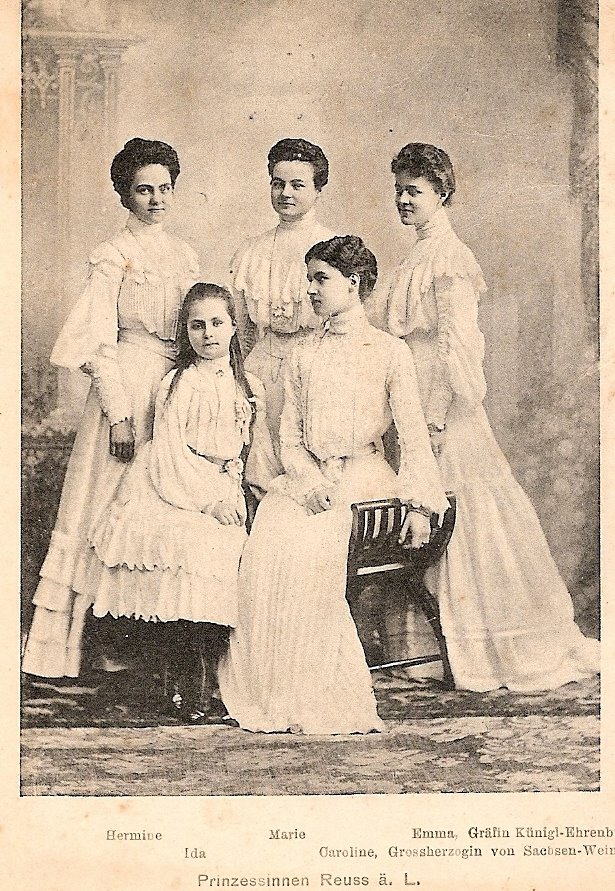 A charming photo of five sisters was taken in Greiz, the capital of the principality of Reuss, in 1903.